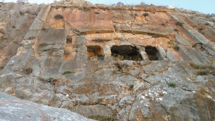 Haidara Ruins - Kabelias